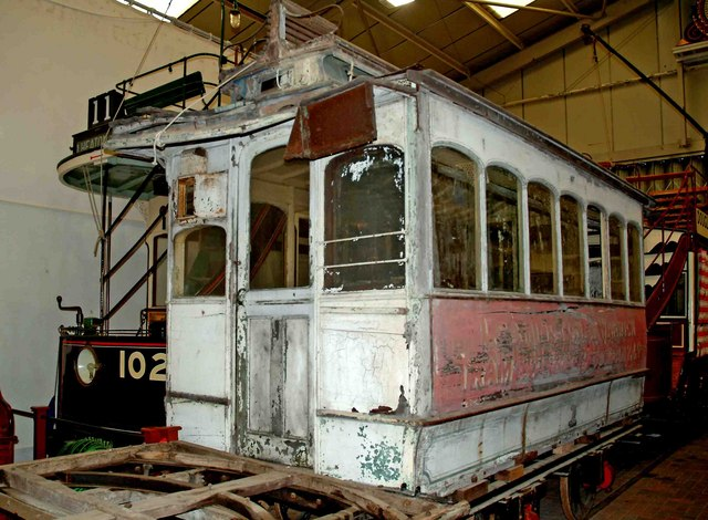 Unrestored Leamington & Warwick tram at Crich This tram came from the long closed Leamington & Warwick tramway system. It is quite possibly a horse tram rather than an electric vehicle. Its battered and weather-worn state is typical of trams that are rescued from fields and farms, decades after they have been taken out of service. Hopefully it will be restored one day.